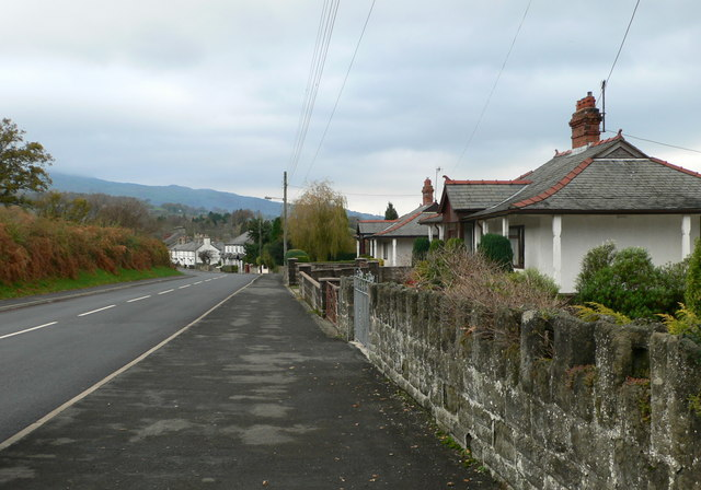 Tal-y-Bont Entering Tal-y-Bont from the south. Tal-y-Bont is a small village in the Conwy valle. It lies east of the River Conwy, on the B5106 road, six miles from Conwy to the north, and six miles from Llanrwst to the south.